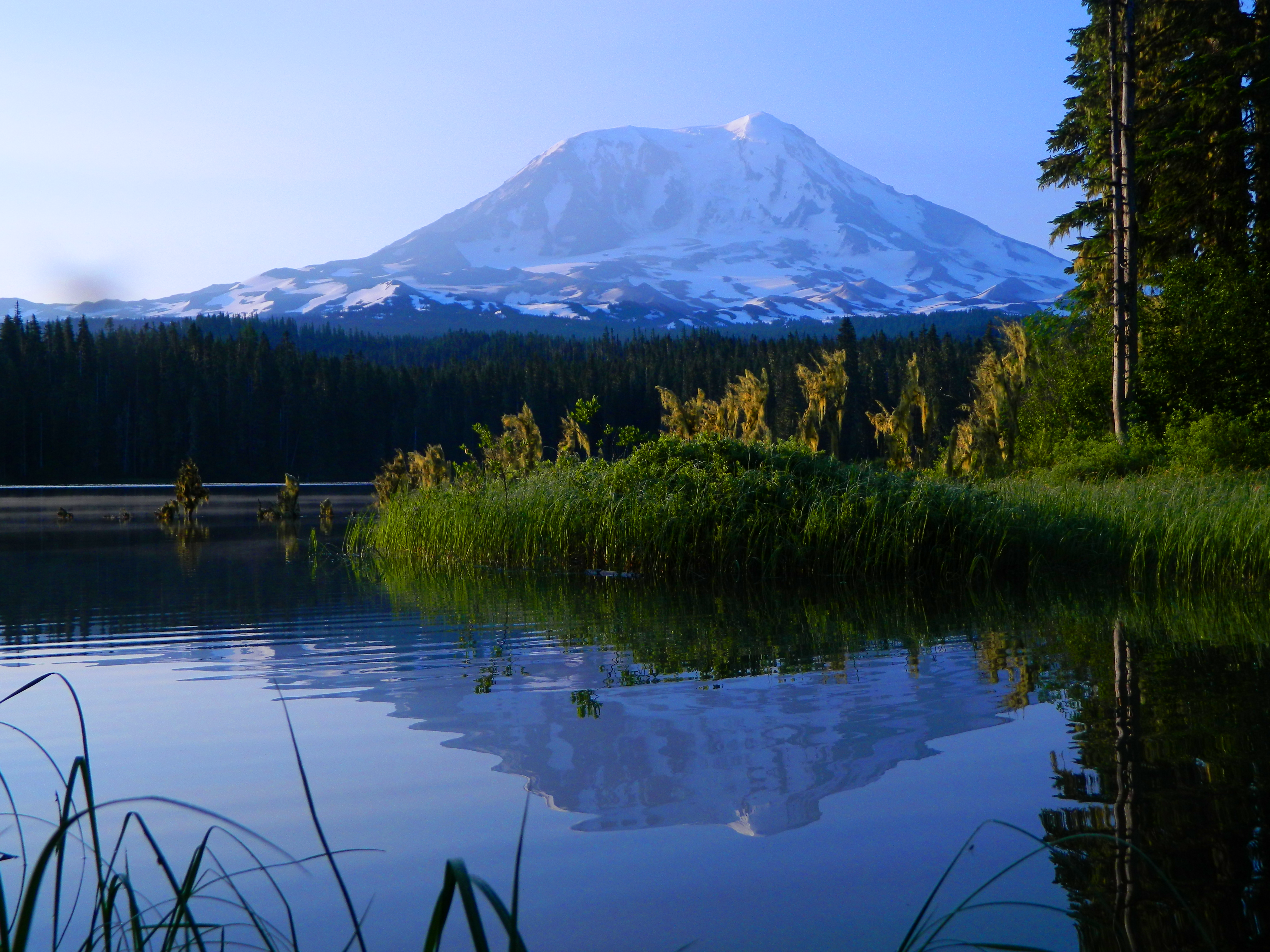 Early morning at Takhlakh Lake reflects Mount Adams from the day use area at Takhlakh Lake Campground. The lake offers world class views across the lake of Mount Adams, towering at over 12,000 feet.